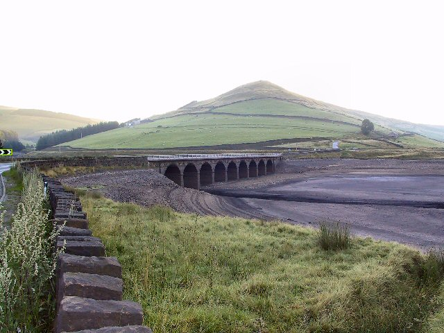 Woodhead Bridge. The bridge carries the A628 over the Woodhead reservoir which, in early spring, is normally full until only the top few inches of the arches can be seen. Here, in August,the original source stream is the only sign of water.